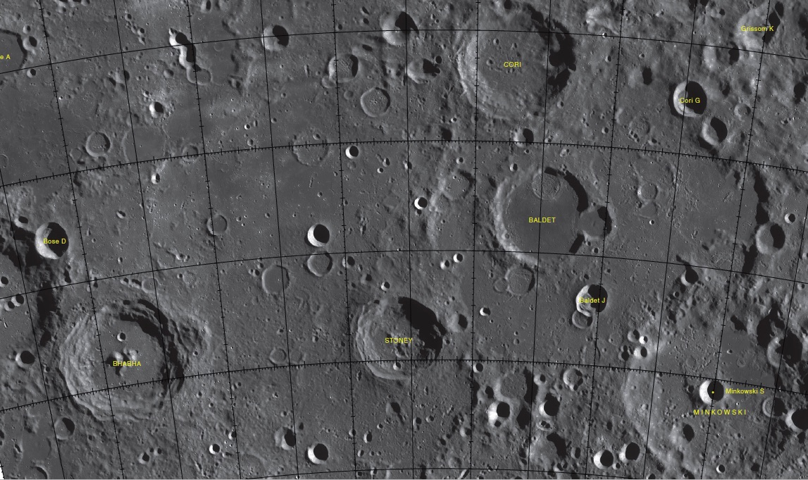 Part of the chart LAC-133.